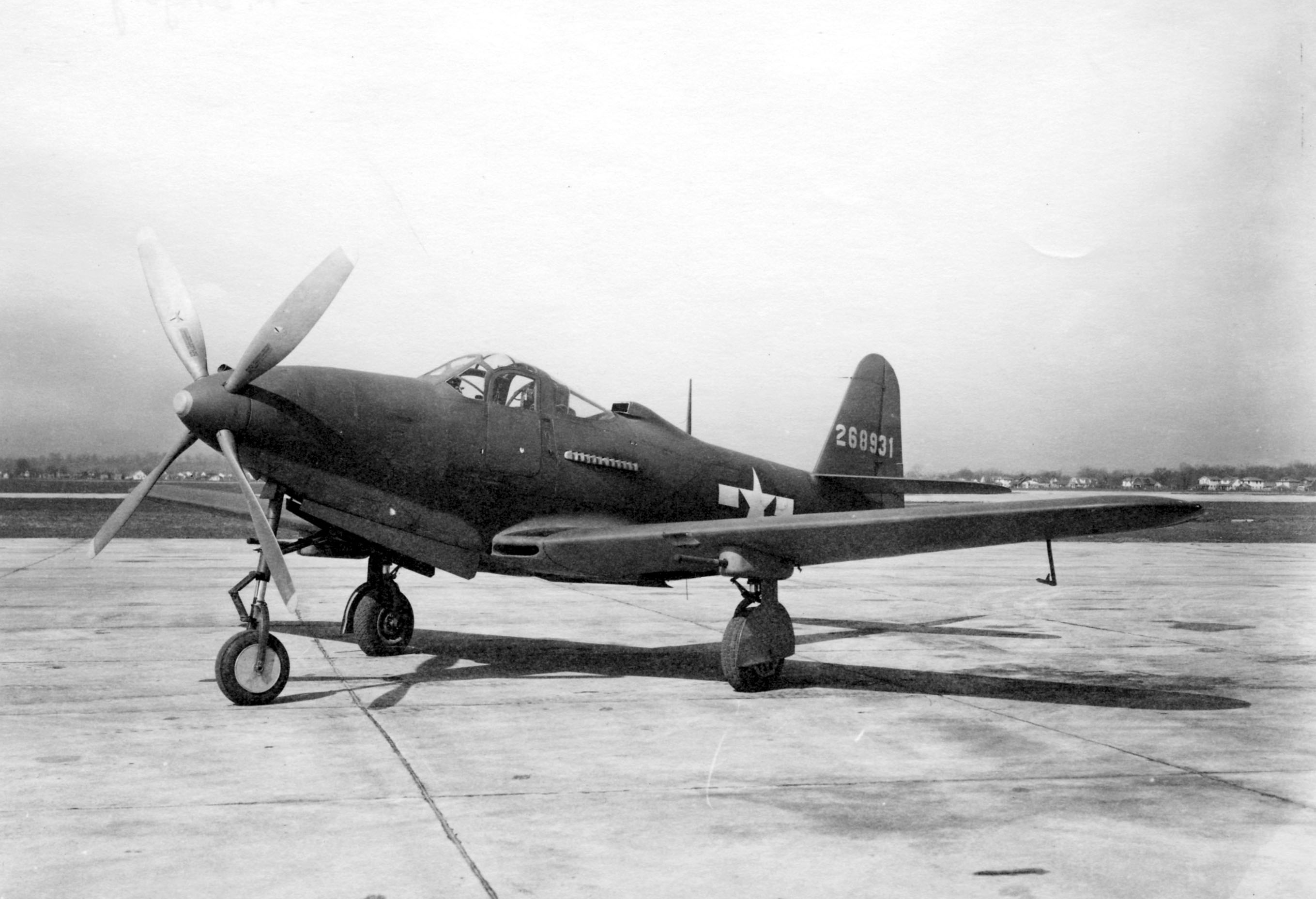 Bell P-63 Kingcobra on the flightline.